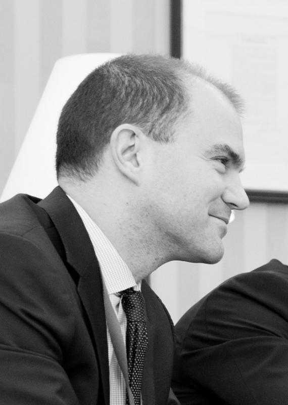 Cropped version of .